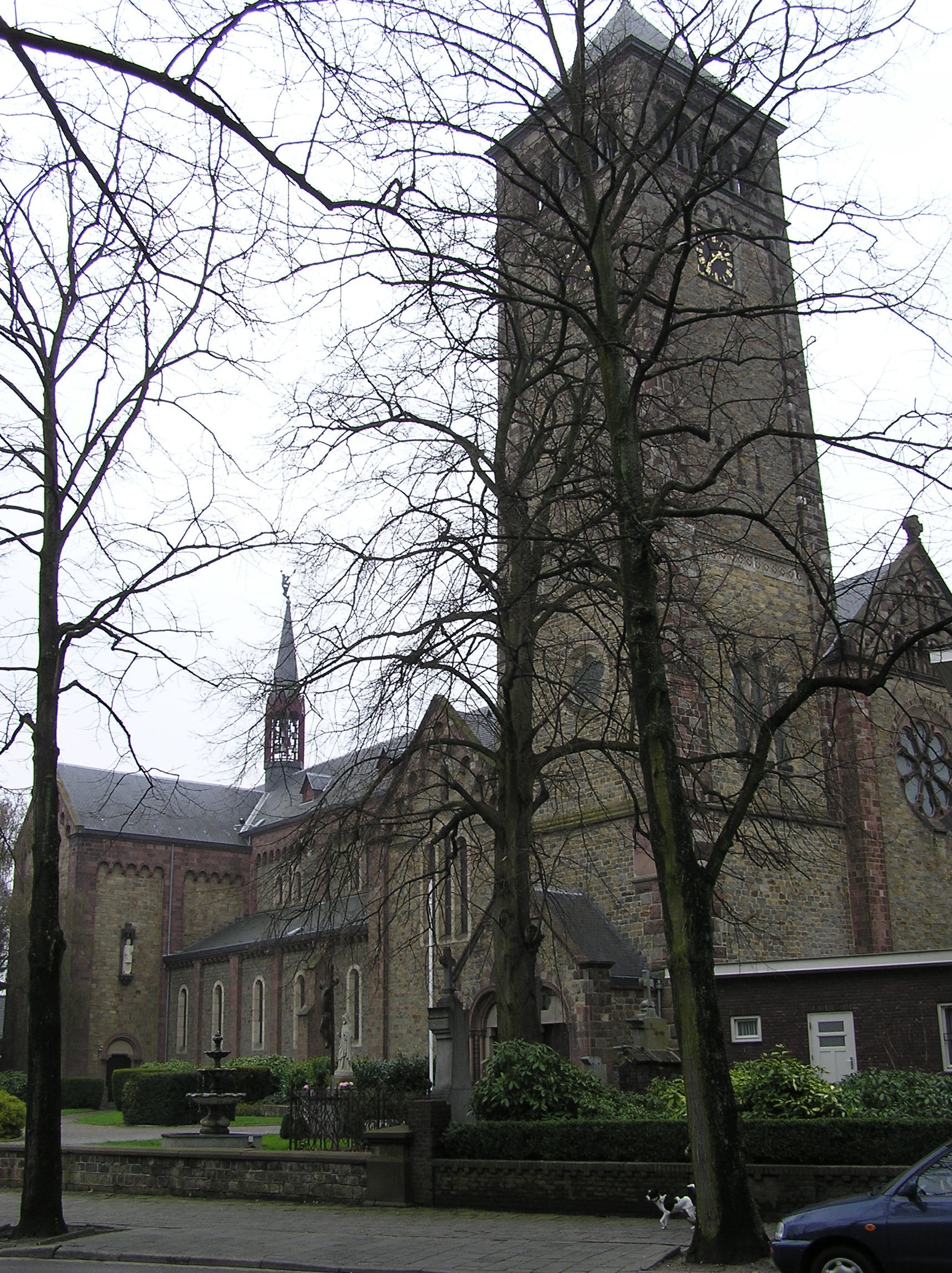 The Sint Martinuskerk in Beek, Limburg (NL).